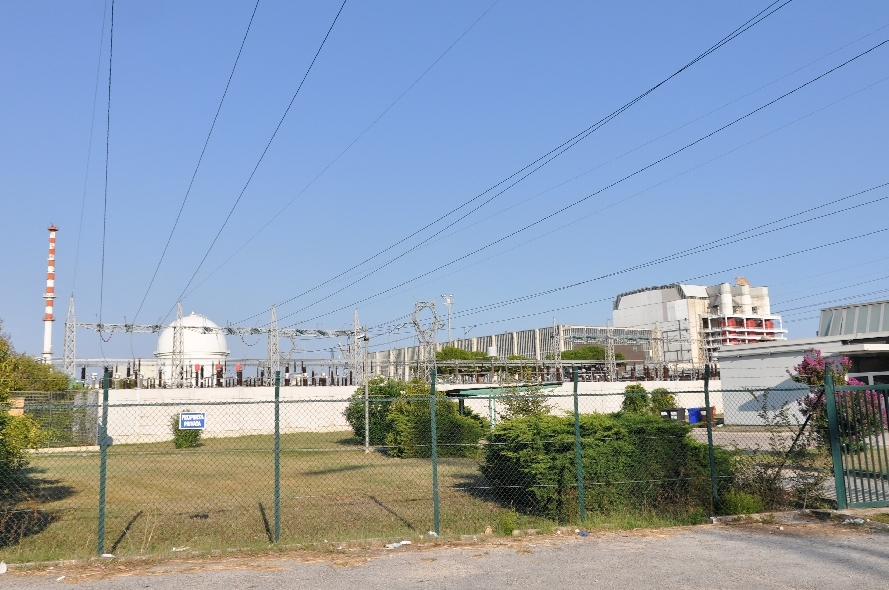 Latina Nuclear Power Plant and Cirene Nuclear Power Plant Dieses Foto entstand in Zusammenarbeit mit Stadtbesichtigungen.de Die Seiten Stadtbesichtigungen.de, der dazugehörige Reise Blog sowie die Facebookseite: Stadtbesichtigungen Rom dürfen dieses Bild für Ihre Veröffentlichungen ohne den Hinweis auf Wikipedia, Commons bzw der Lizenz verwenden. Die Verantwortlichen habe von mir (Ra Boe) die Originaldaten zur freien Verfügung übermittelt bekommen.